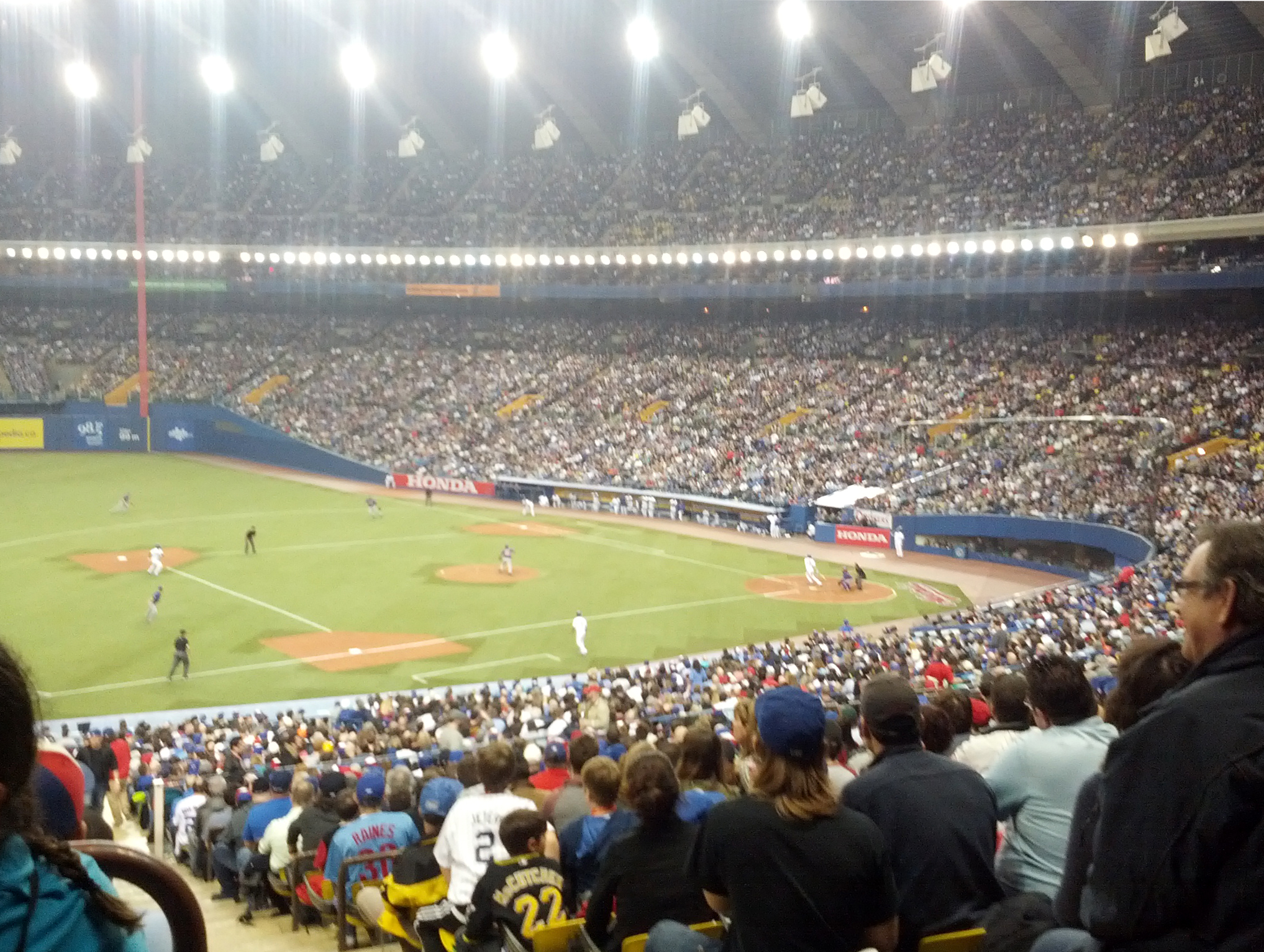 New York Mets and Toronto Blue Jays face in an exhibition Major League Baseball (MLB) game at Olympic Stadium in Montreal, 28 March 2014.